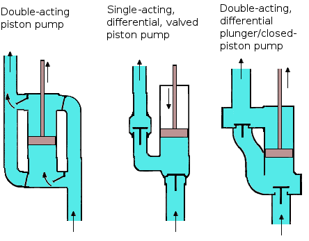 Schematic of the types of piston pumps. Based on image at